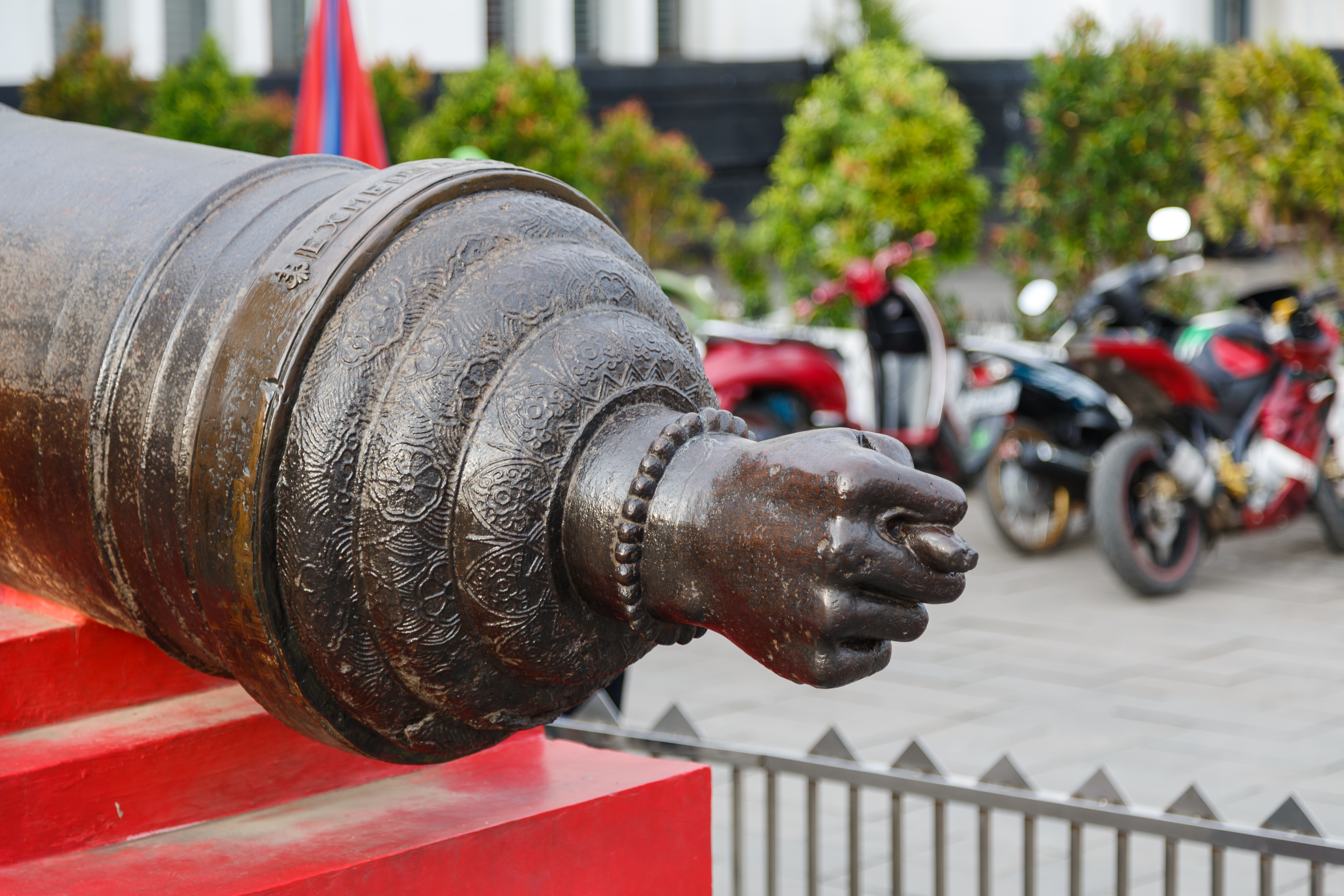 Jakarta, Indonesia: Si Jagur Cannon at Fatahillah Square. The Portuguese cannon comes with a hand ornament showing a fico gesture, which is believed by local people to be able to induce fertility on women.